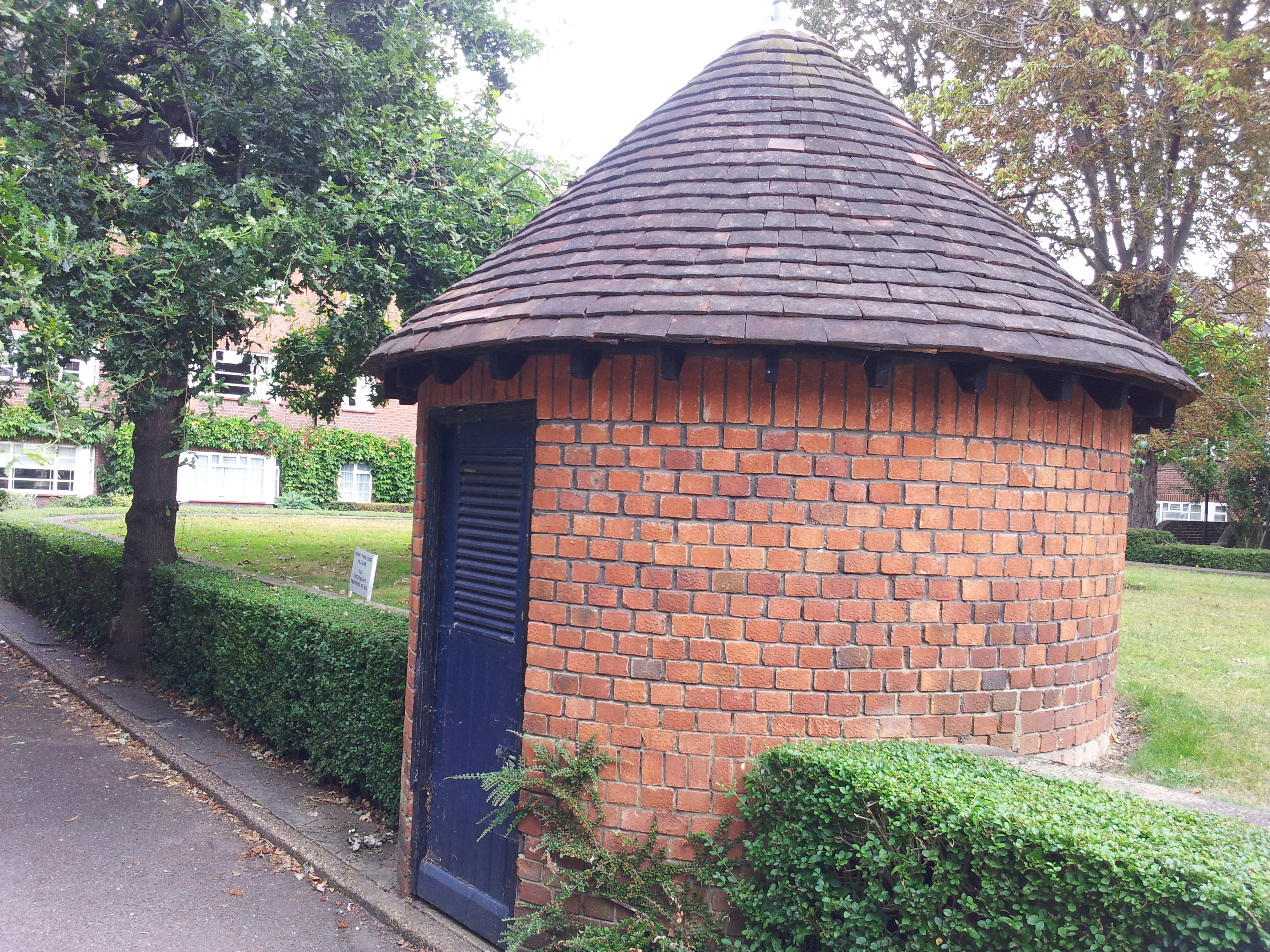 Entrance to air-raid shelter, St Leonard's Court, East Sheen, London SW14